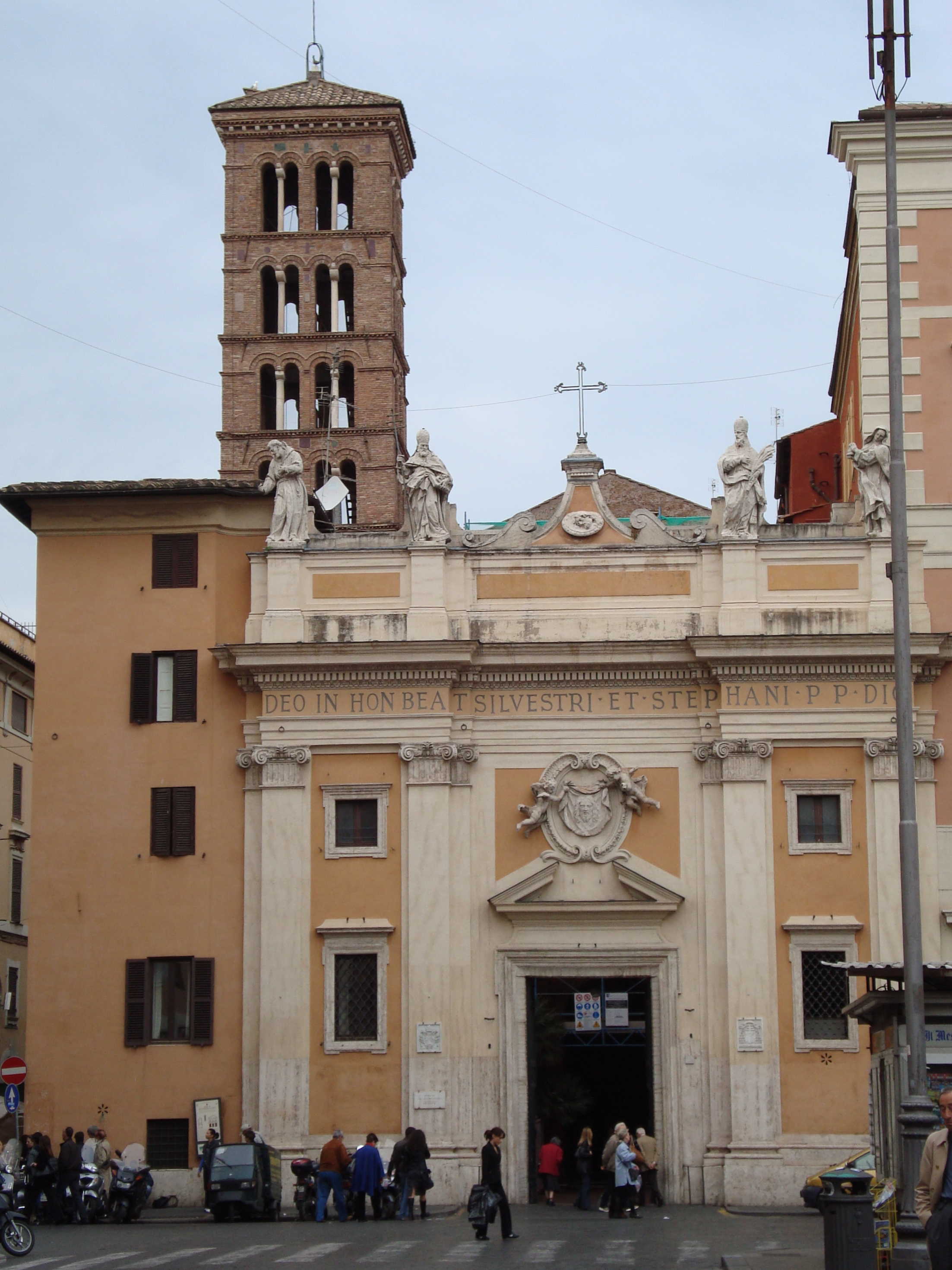 Chiesa San Silvestro in Capite in Rome